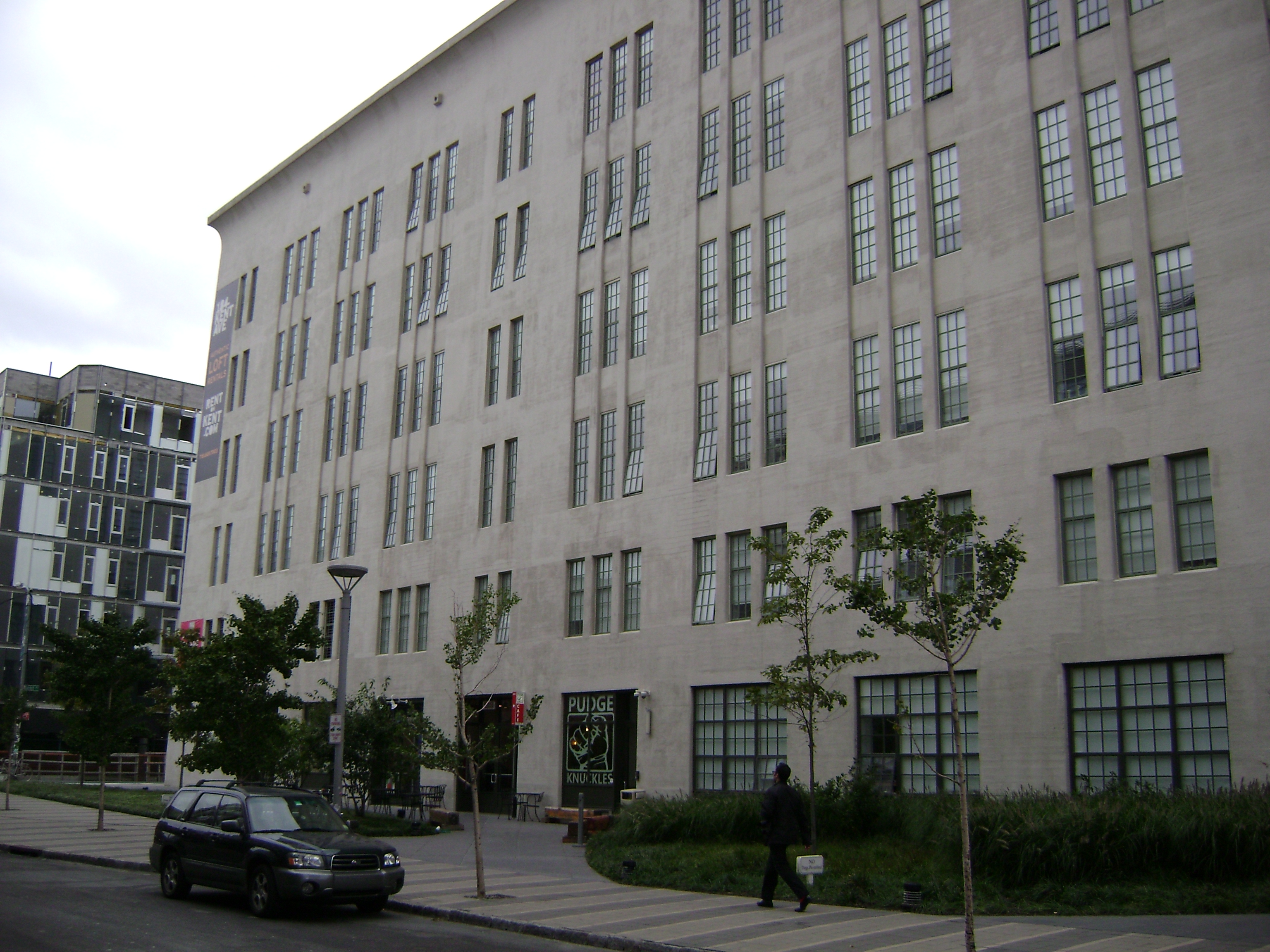 Austin, Nichols and Company Warehouse, 184 Kent Ave. Williamsburg